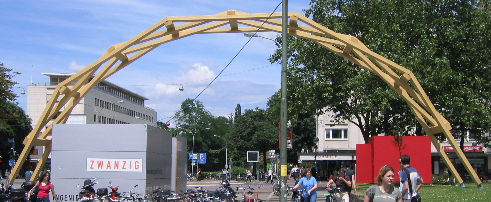 Leonardo Bridge, built in Freiburg on the occasion of the 50th anniversary of the Baden-Württemberg Chamber of Architects.